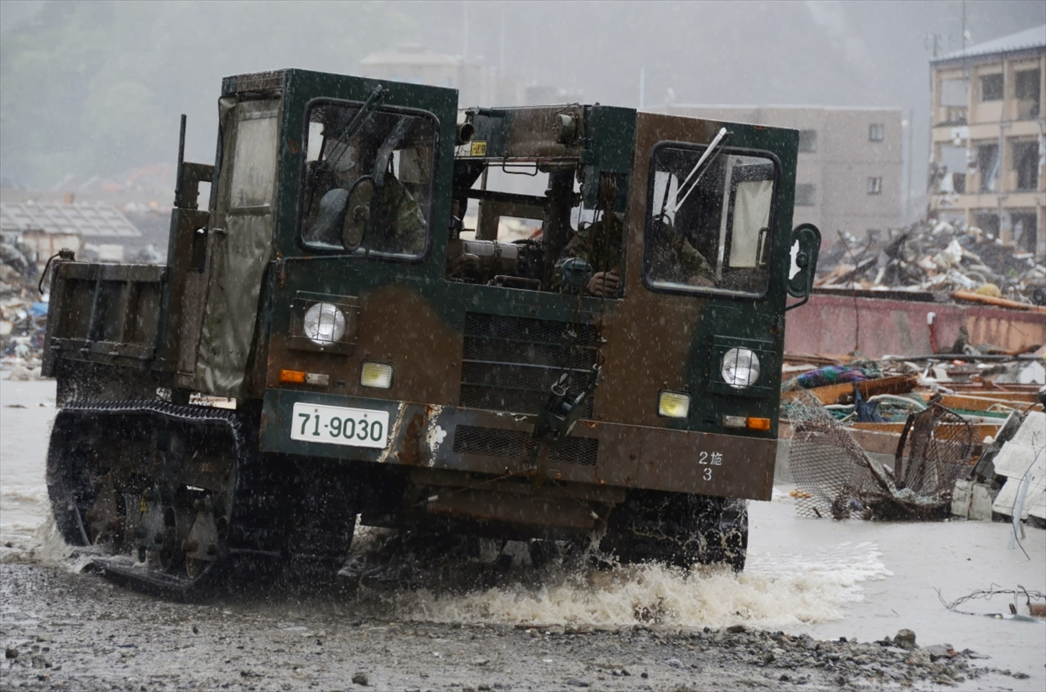 Title 資材運搬車23.5.30 ２Ｅ：瓦礫の運搬等（大槌町）.JPG Album 装備 資材運搬車（災害派遣活動・第２施設大隊）